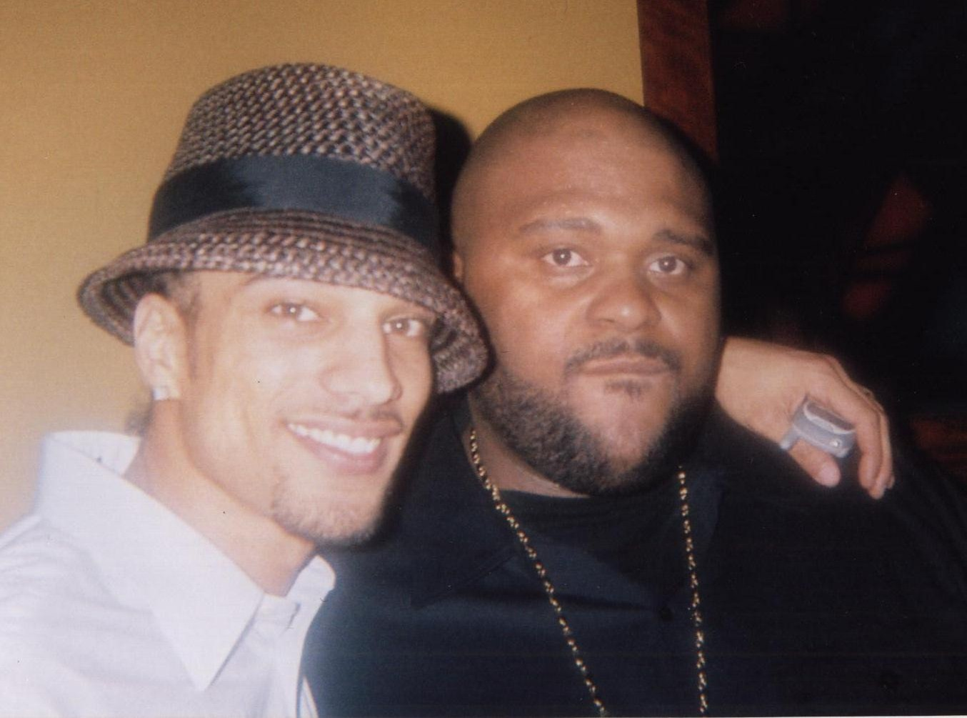 A photo I took of Corey Clark and Rueben Studdard